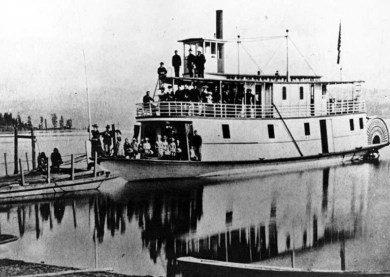 Sternwheeler Amelia Wheaton, on Lake Coeur d'Alene, sometime between 1878 and 1892.